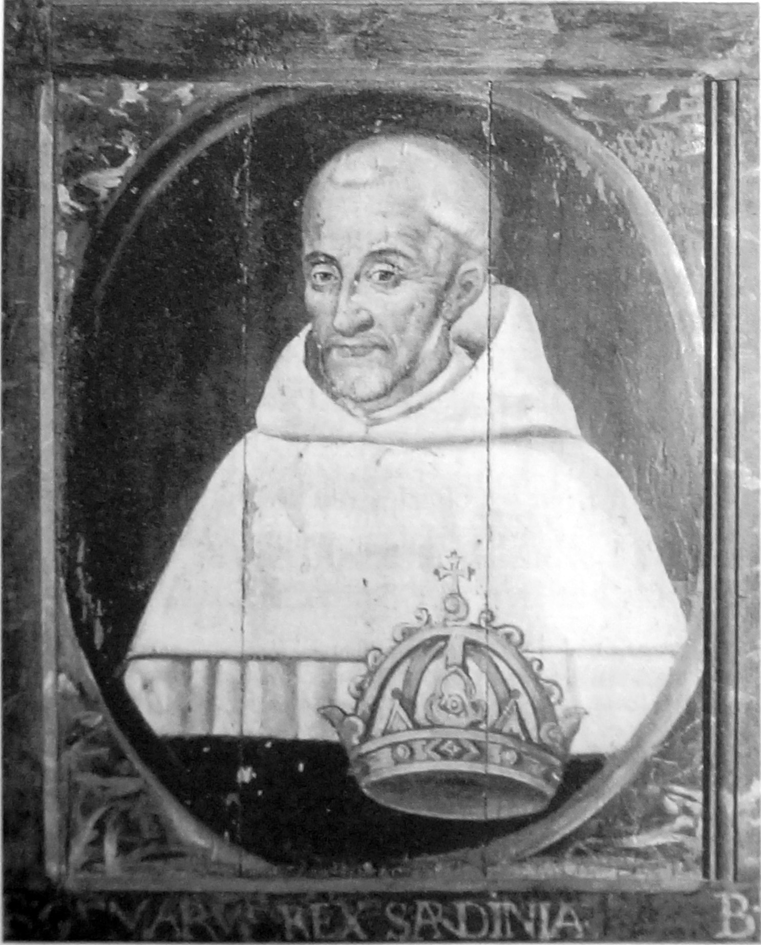 Gonarius, iudex of Torres, one of the four medieval kiingdoms in Sardinia. See the caption in Latin painted in the lower part, saying "Gonarivs, rex Sardiniae". He was actually king of only on of the four kingdom, not of the entire island. He lastly decided to abandon his kingdom and became a monk in Clairvaux.